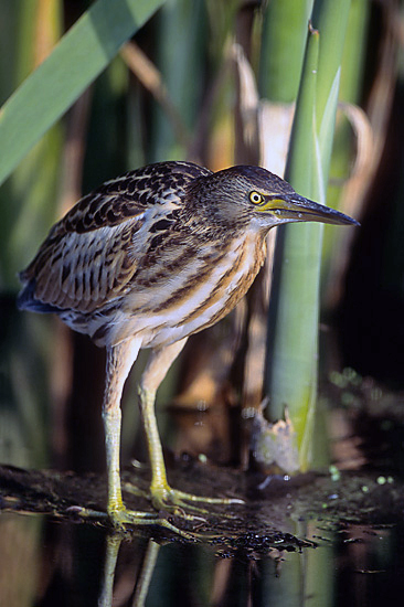 Ixobrychus minutus, young